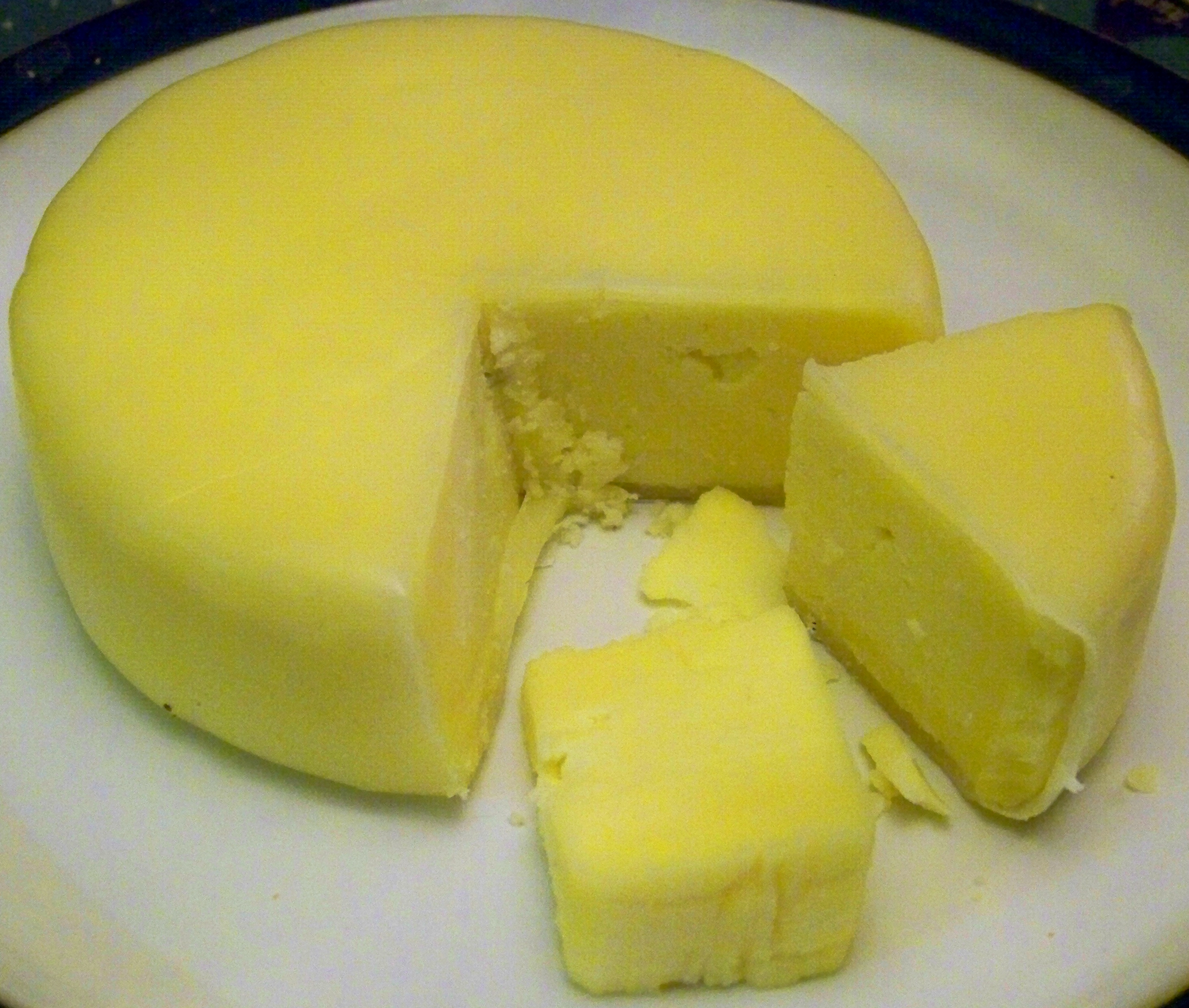 Swaledale cows milk cheese made in Swaledale, Yorkshire, England and has been awarded Protected Designation of Origin (PDO).